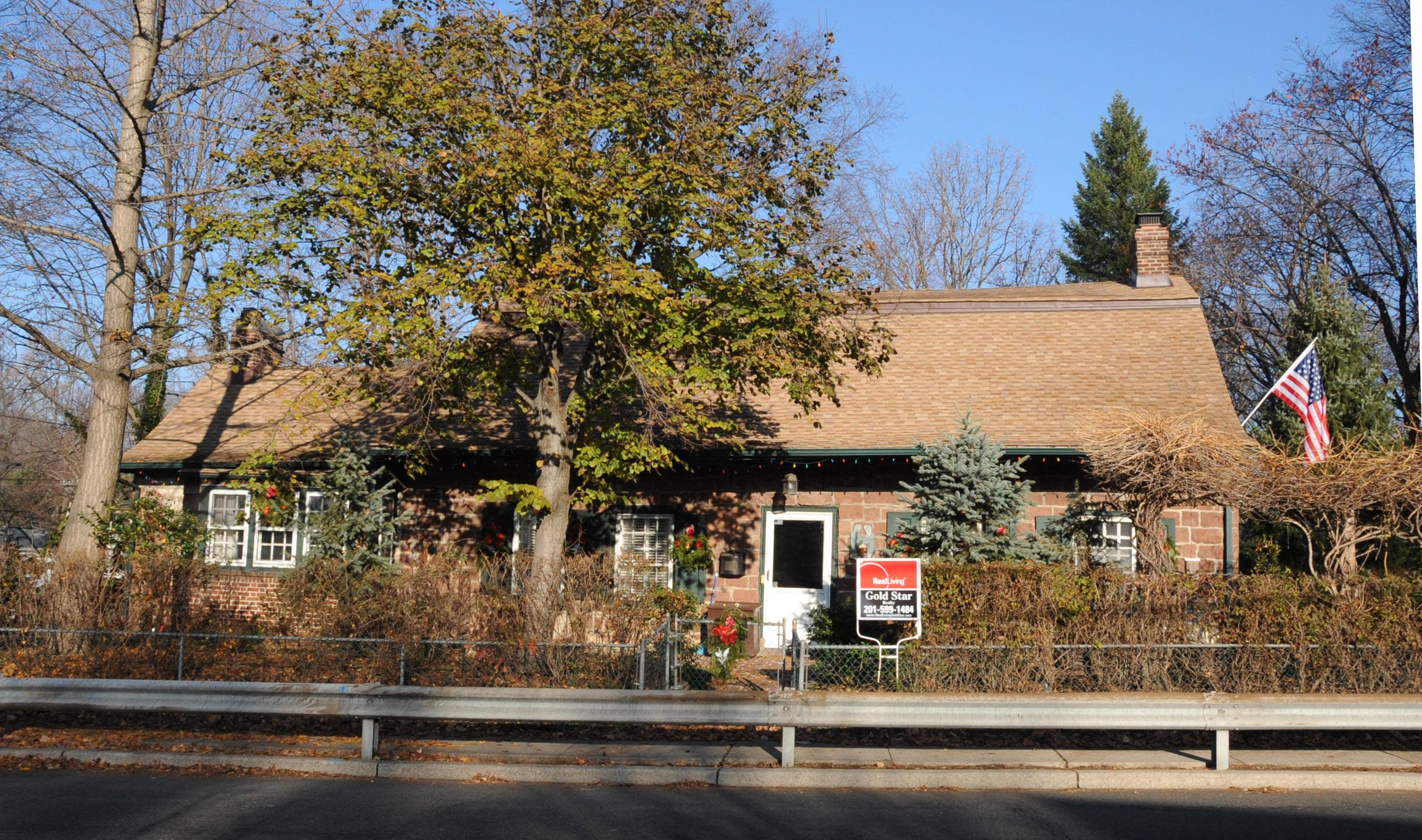 BUILT IN 1677 AND ONE OF THE OLDEST HOUSES IN THE COUNTY BY DAVID DEMREST, SR., FOUNDER OF THE HUGUENOT COLONY IN BERGEN COUNTY. IT REMAINED IN THE DESMAREST FAMILY UNTIL 1850.